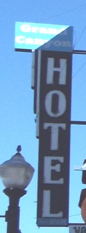 Antique Grand Canyon Hotel sign located at 145 W. Route 66 in Williams, Arizona